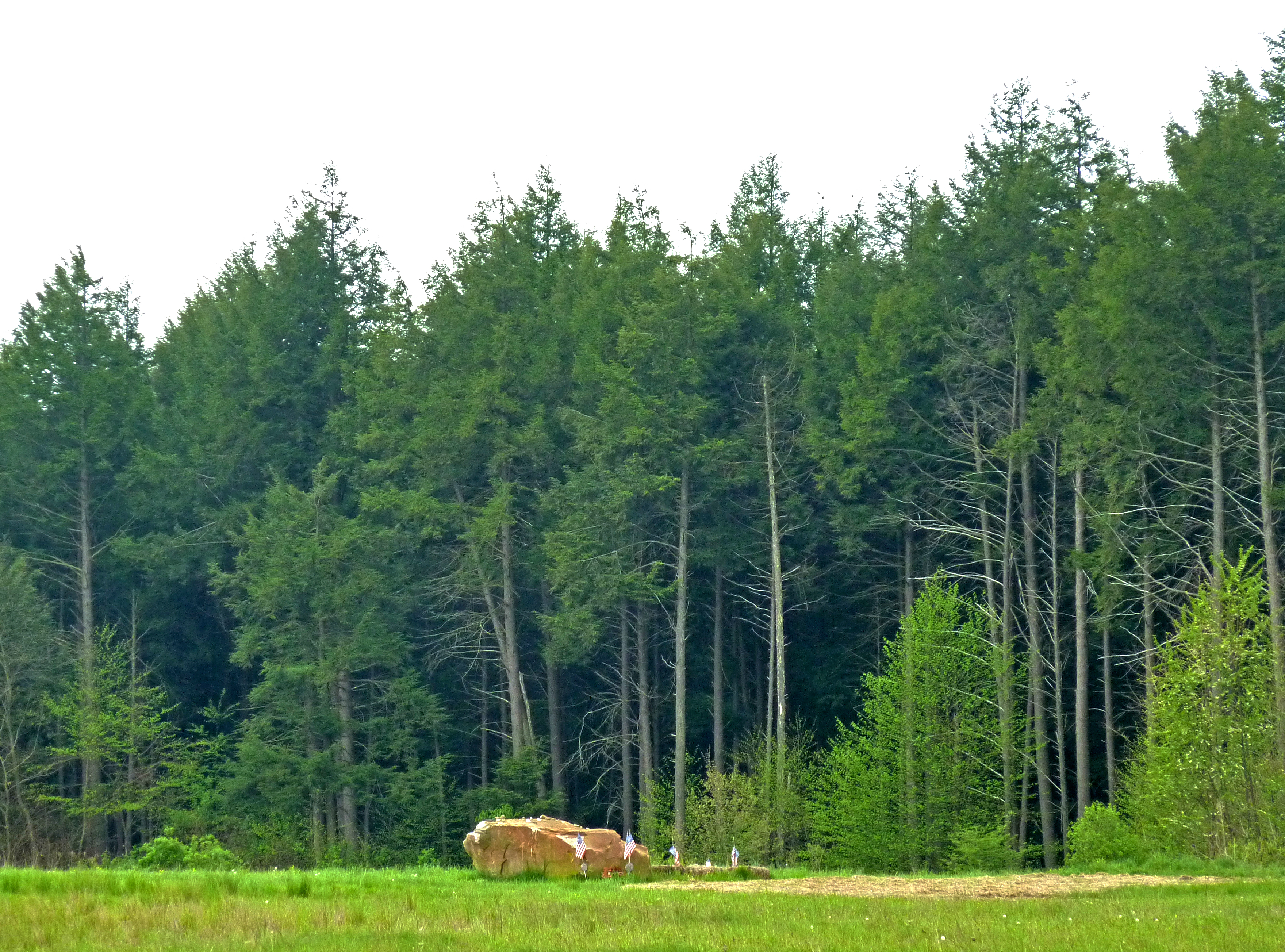 View of the Crash Site at the Flight 93 National Memorial from the Memorial Plaza Walkway. The boulder marks the principal impact zone, and behind it is the Cypress Grove partially destroyed by the collision.